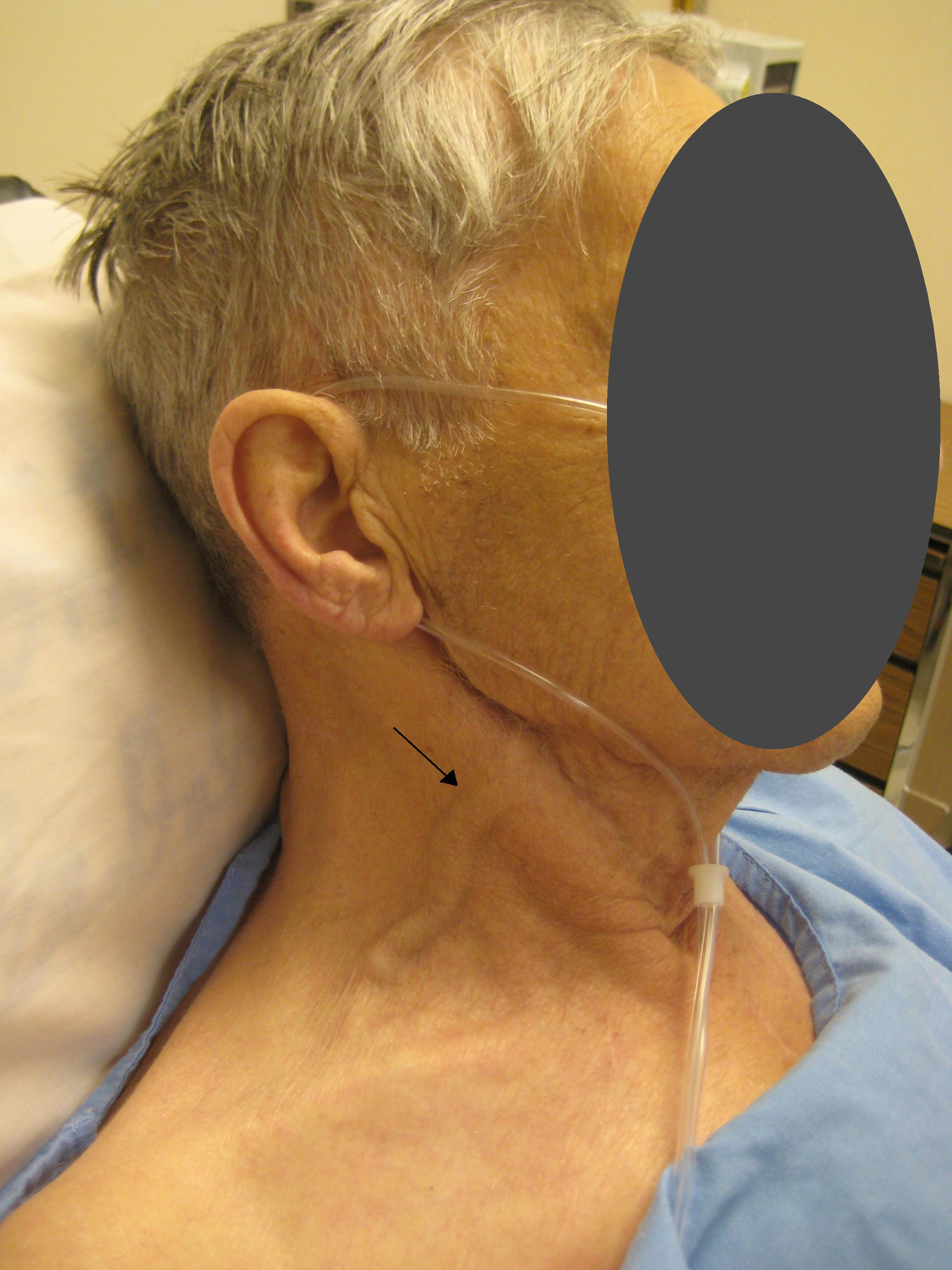 Markedly elevated jugular venous distension. Consent of person in picture obtained.